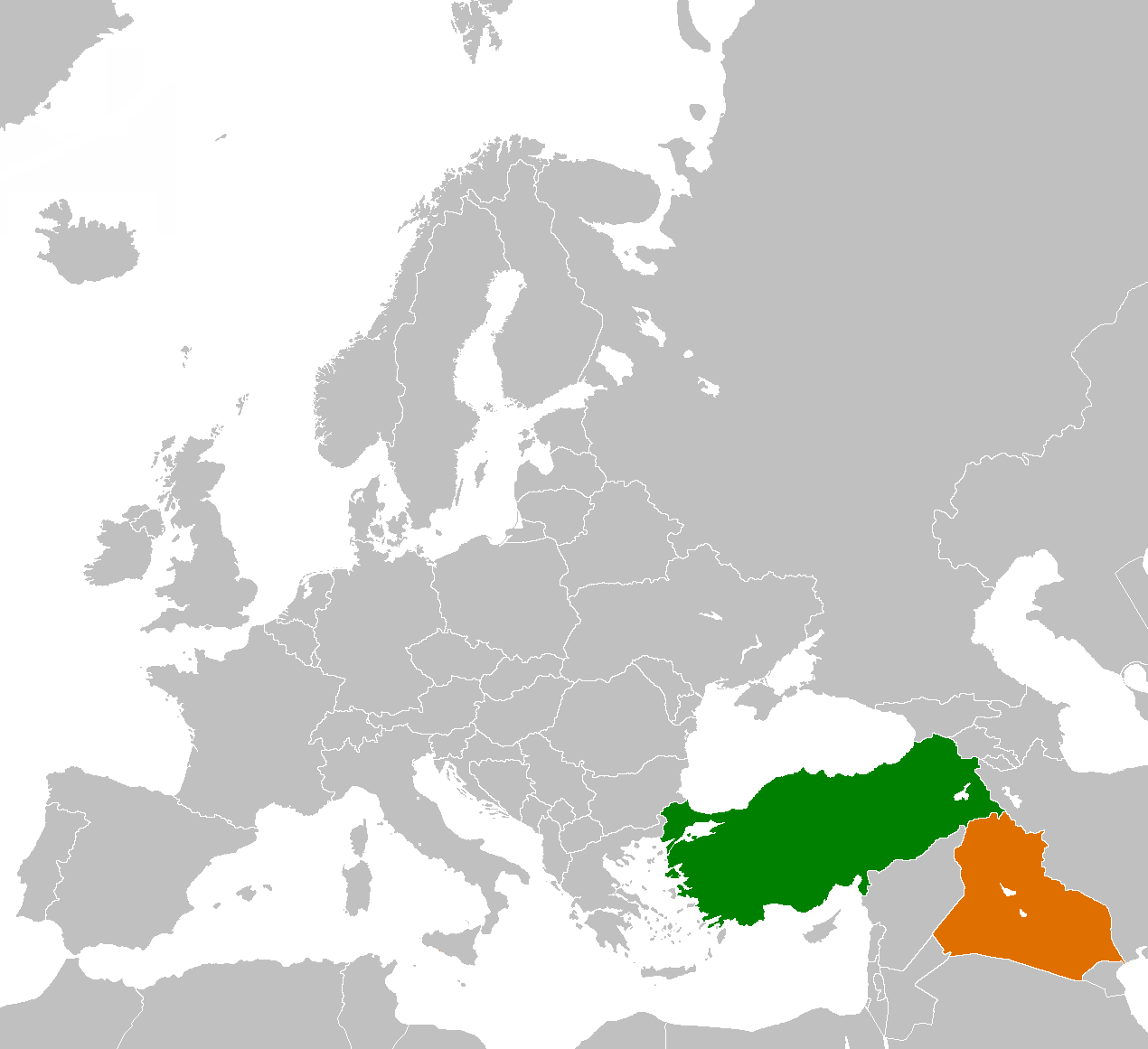 Turkey Iraq Locator